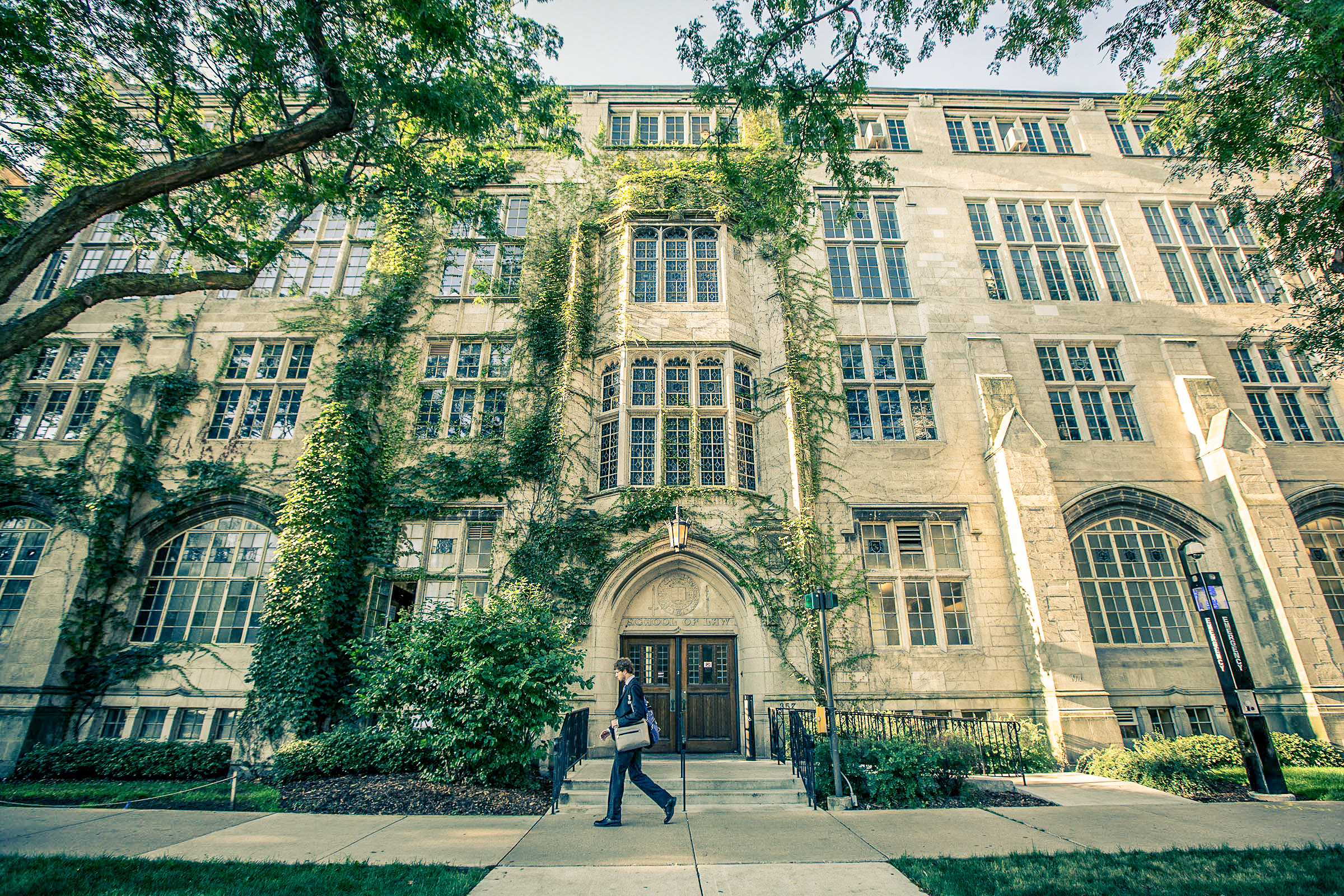 Exterior of Northwestern University School of Law Levy Mayer Hall.